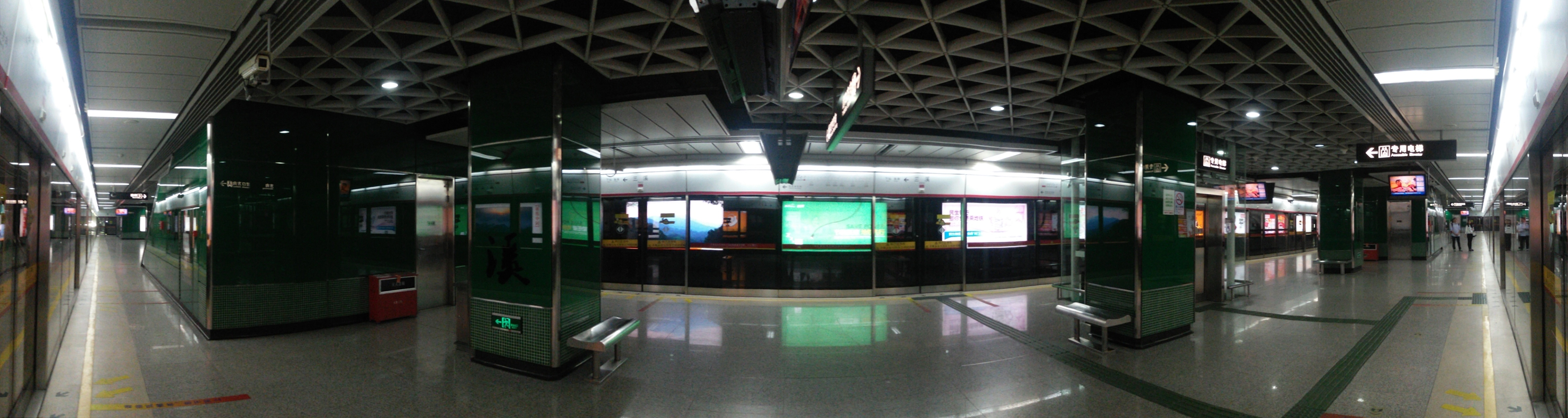 FULL SIGHT of Platform (Towards Wenchong Station) for Sanxi Station in Guangzhou Metro.